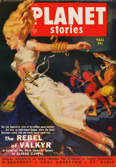 Cover of Planet Stories, Fall 1950